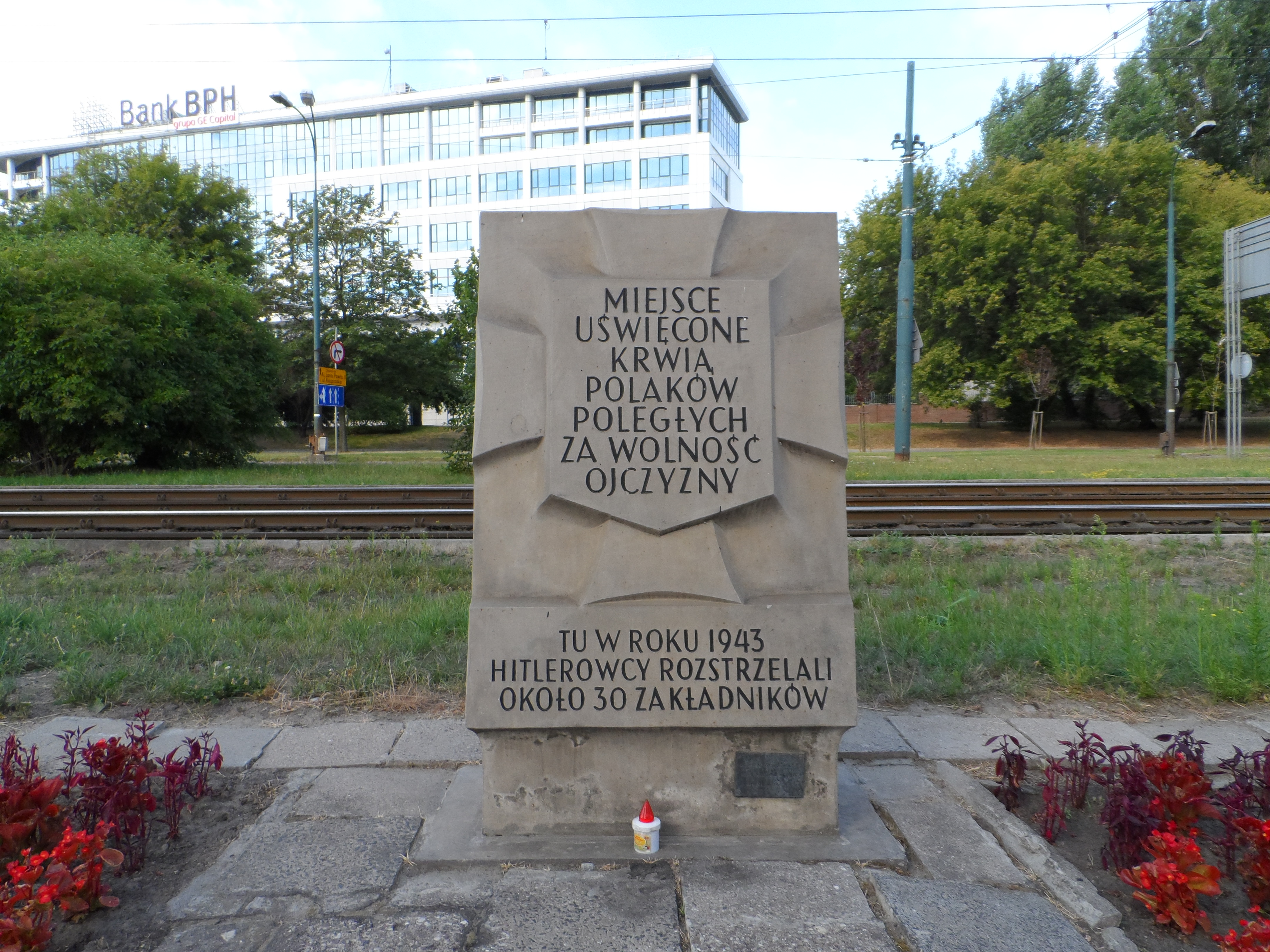 Plaque at the corner of Towarowa Street and Łucka Street in Warsaw, commemorating group of Polish hostages (inmates of Pawiak prison) murdered in this place by Nazi-Germans in street execution in October 1943